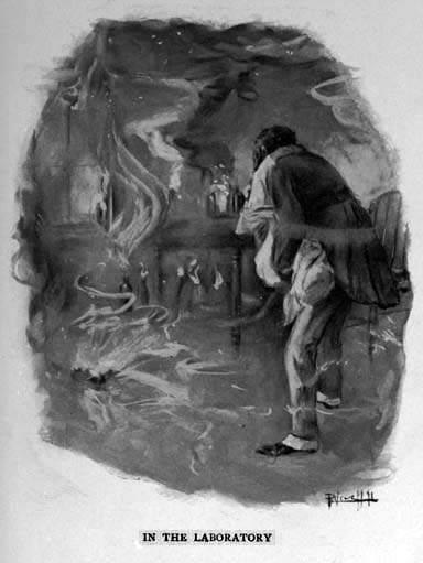 Illustration from the original publication of Stephen Crane's The Monster, published in New York and London byHarper & Brothers Publishers, 1899.